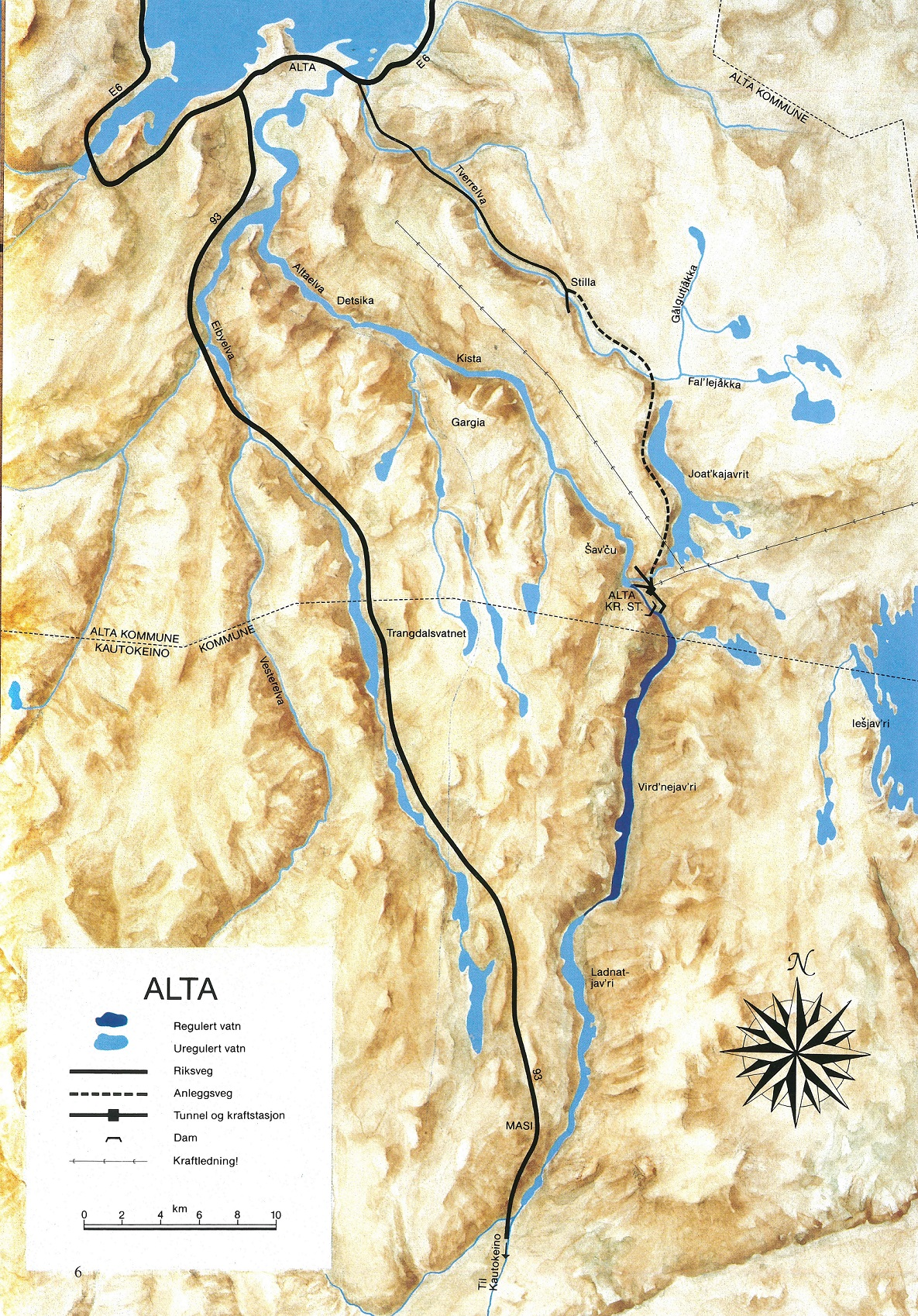 Map of Alta-Kautokeino hydropower system